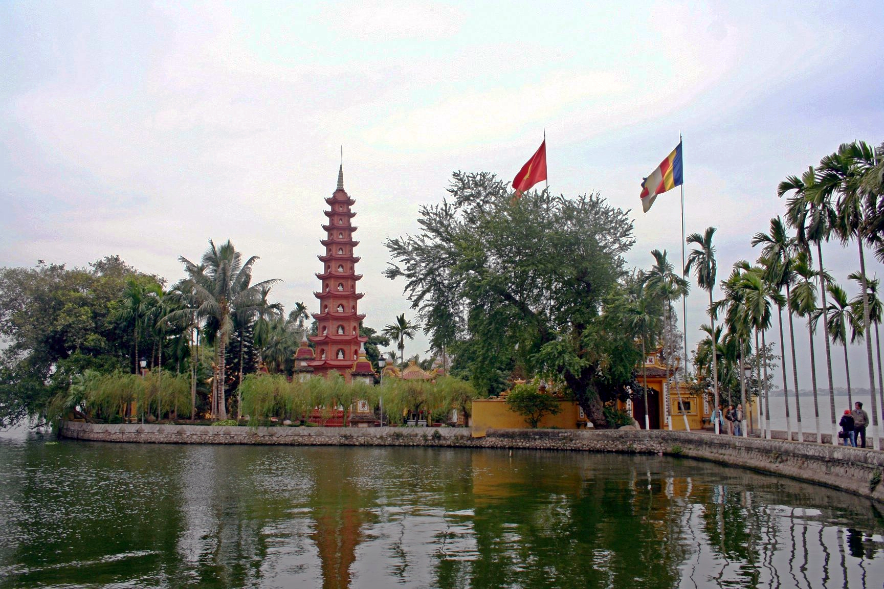 Photograph of Tran Quoc Pagoda, in Hanoi, Vietnam.